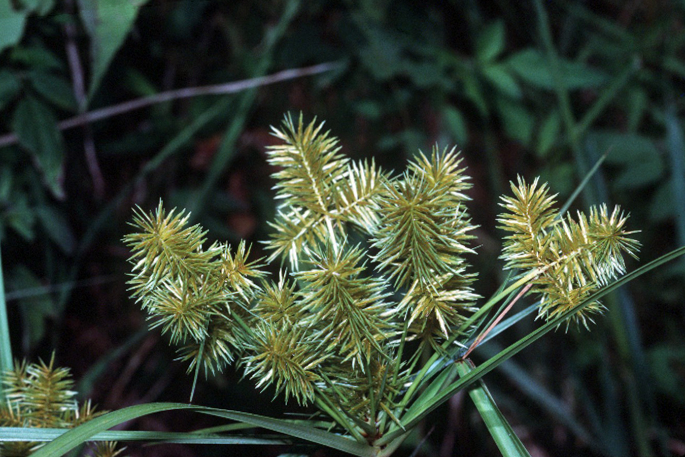 Cyperus strigosus from Robert H. Mohlenbrock. USDA SCS. 1989. Midwest wetland flora: Field office illustrated guide to plant species. Midwest National Technical Center, Lincoln. Courtesy of USDA NRCS Wetland Science Institute. Cropped.